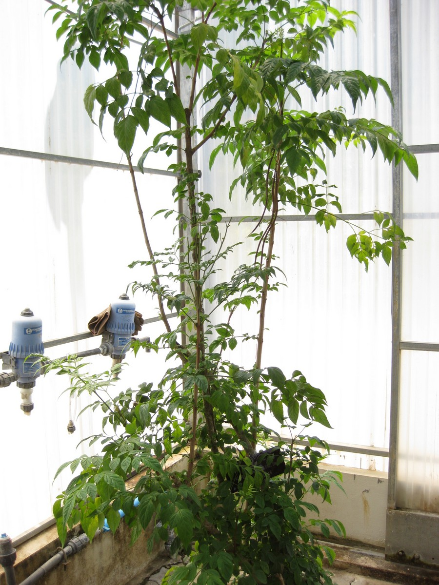 Pauldopia ghorta (Buchanan-Hamilton ex G. Don) Steenis. Photographed at the Queen Sirikit Botanic Garden (Chiang Mai Province, Thailand) in March